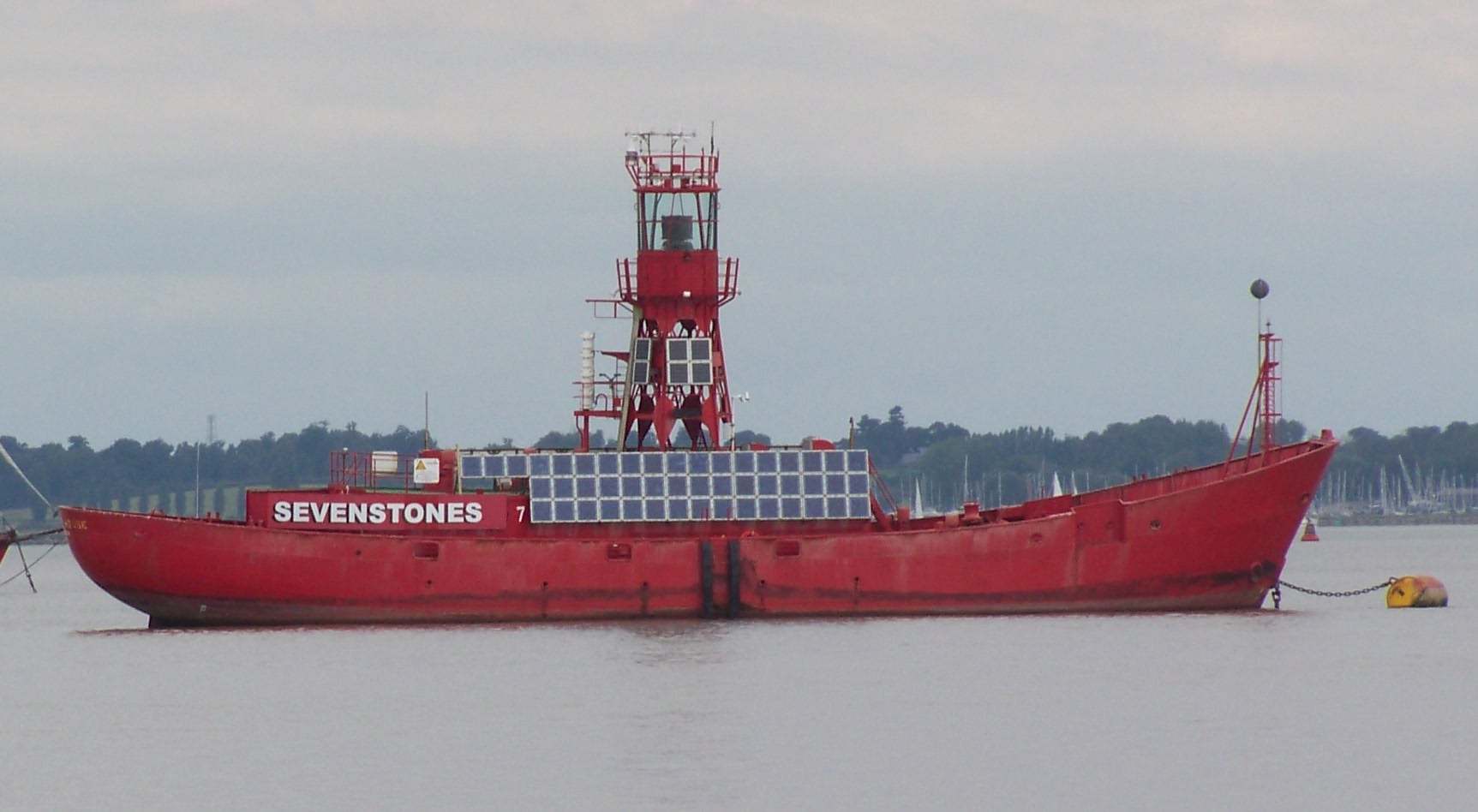 Lightship At Harwich 31/8/11